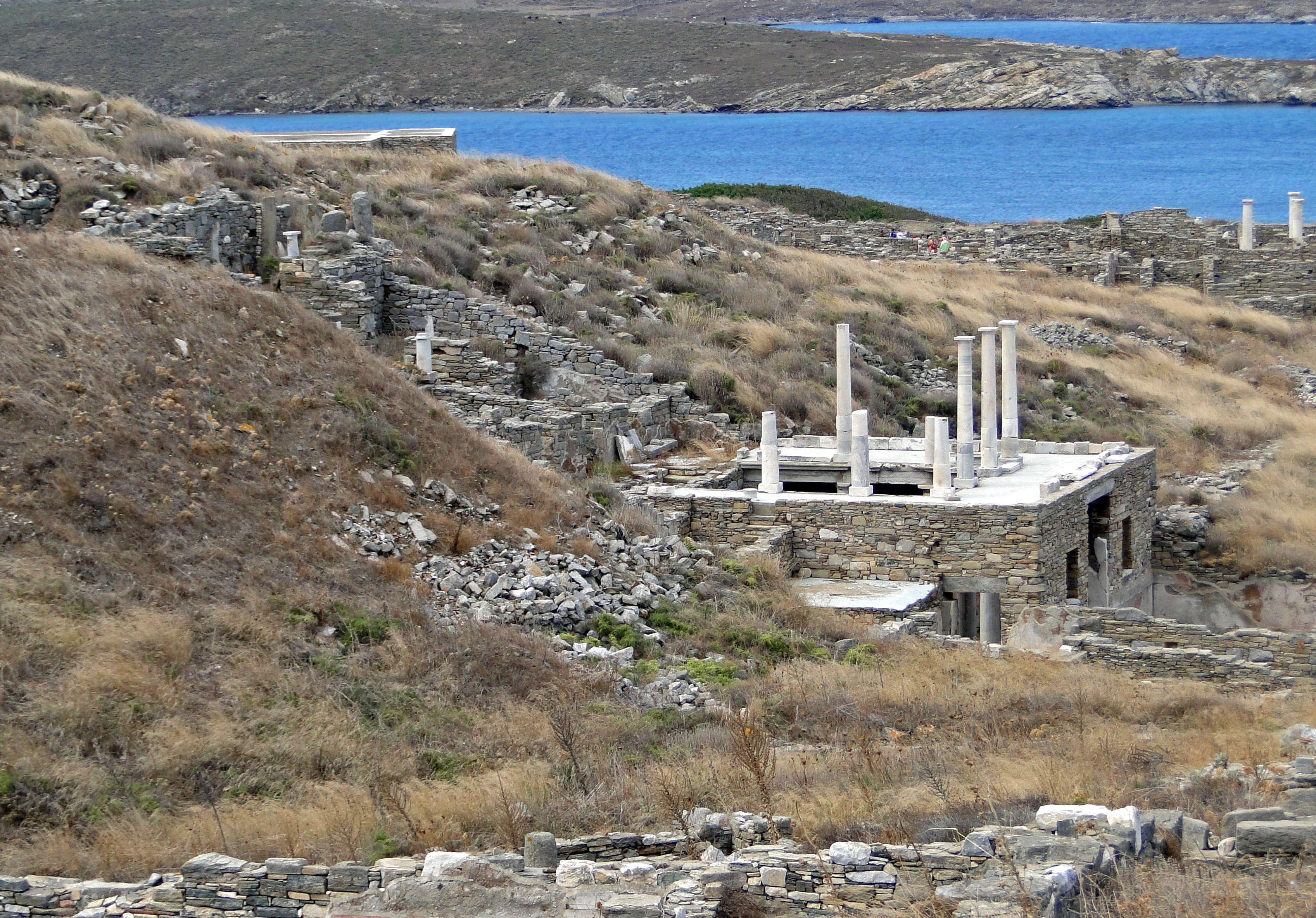 House of Hermes, Delos, Greece